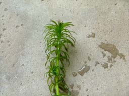 Narrow Leaf Elodea Egeria najas Previously incorrectly labeled as Hydrilla verticillata.